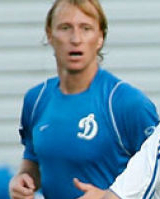 Sergei Filippenkov in action for FC Dynamo Bryansk